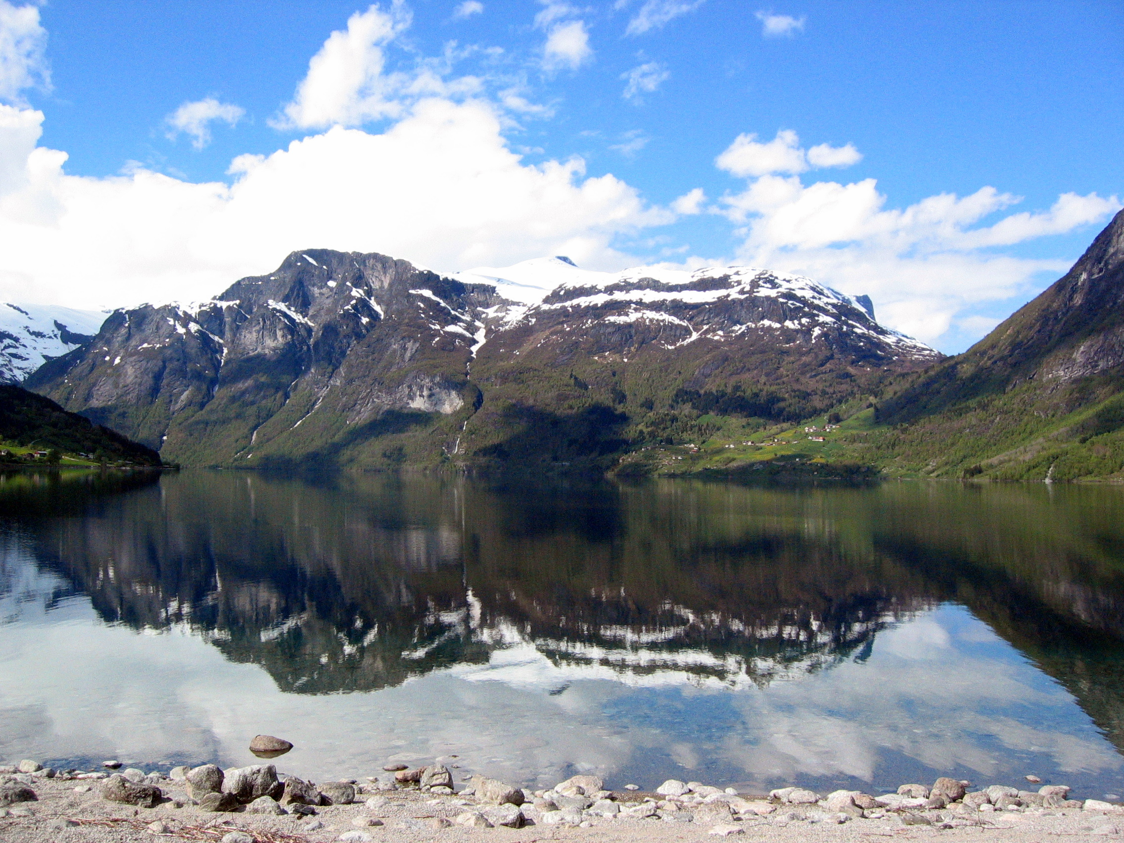 in Stryn